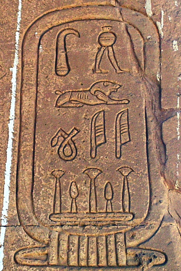 Darius I cartouche on the propylon of the Hibis Temple at Kharga Oasis.